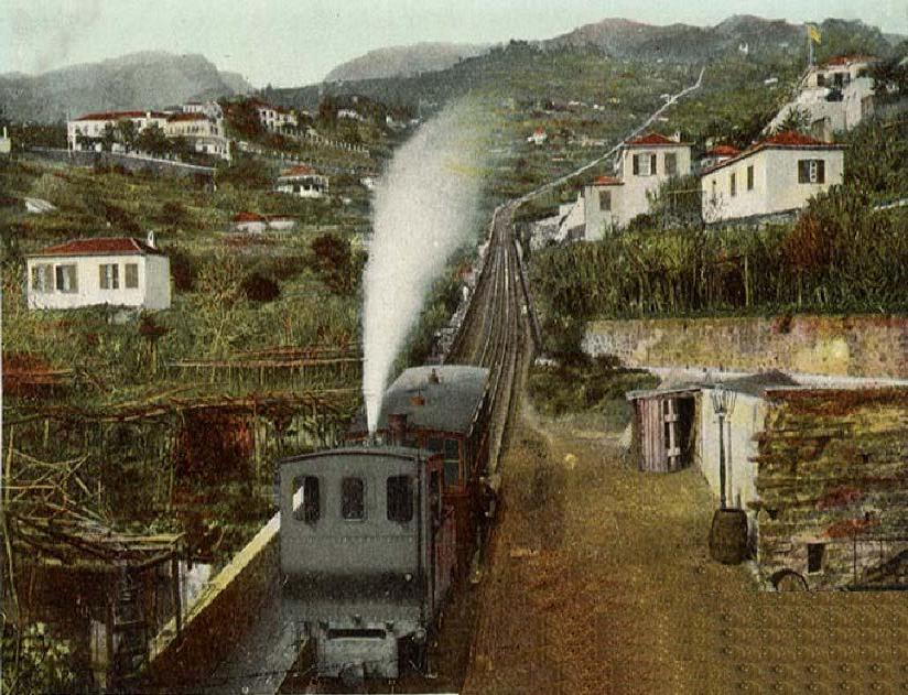 Caminho de Ferro do Monte - Old tramway in Funchal, Madeira